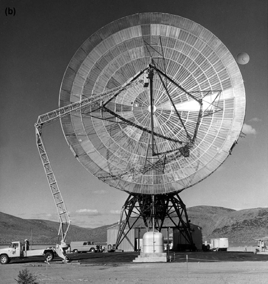 Use of a "cherry-picker" type truck to load liquid helium to an amplifier located at the focus of a radio telescope.